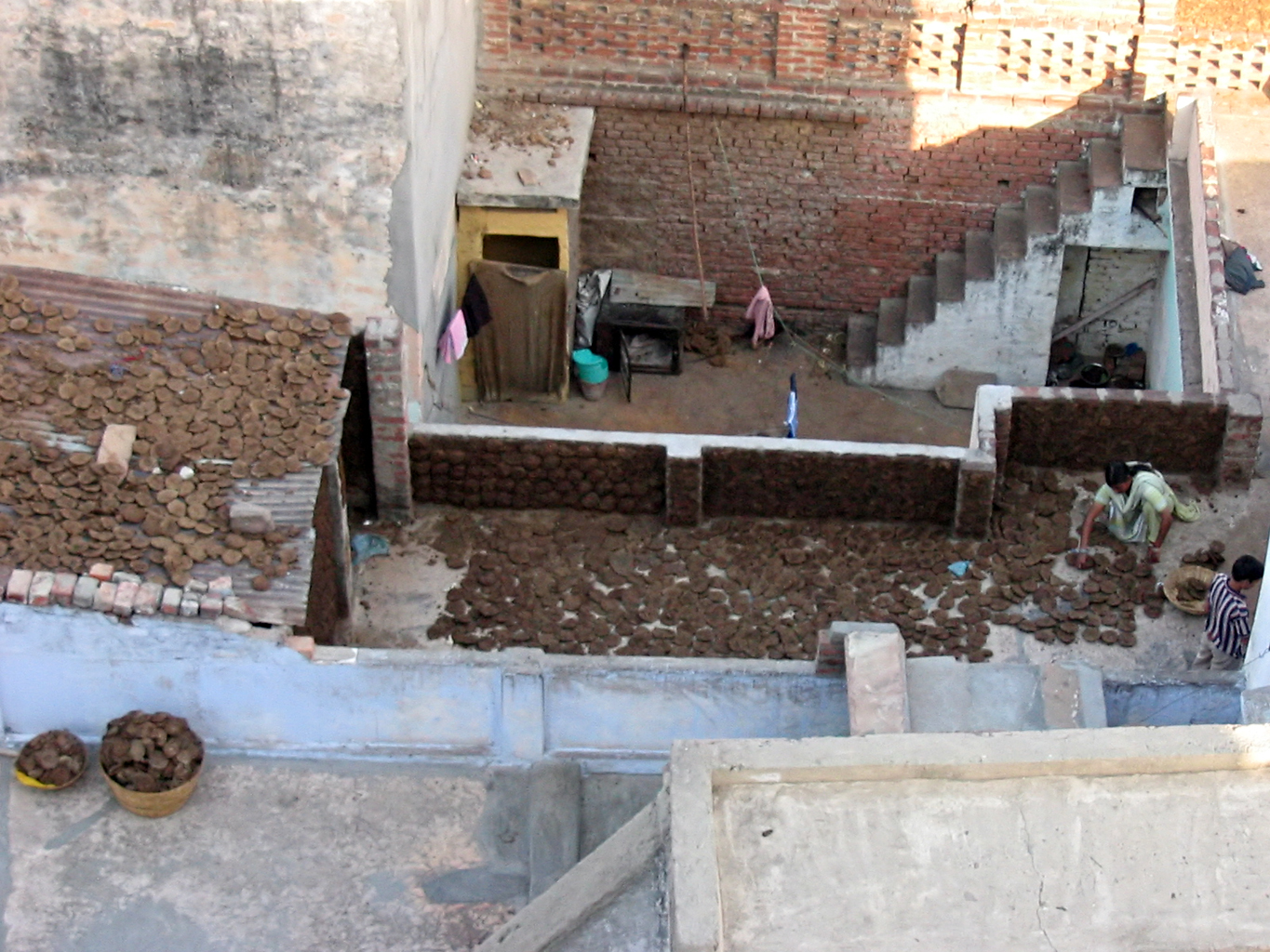 Use of cow dung, Varanasi, India